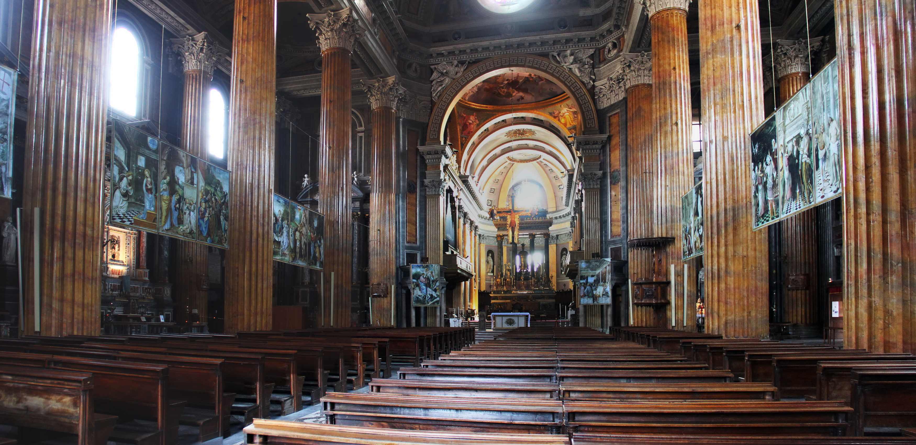 Cattedrale di Santa Maria Assunta, Novara, Piedmont, Italy - Interior